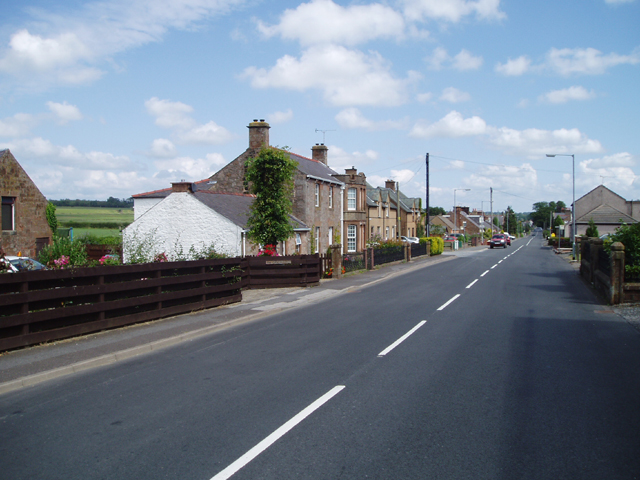 Eaglesfield. A narrow village with a surprisingly long main street. The village comprises mainly of 19th and 20th Century housing.